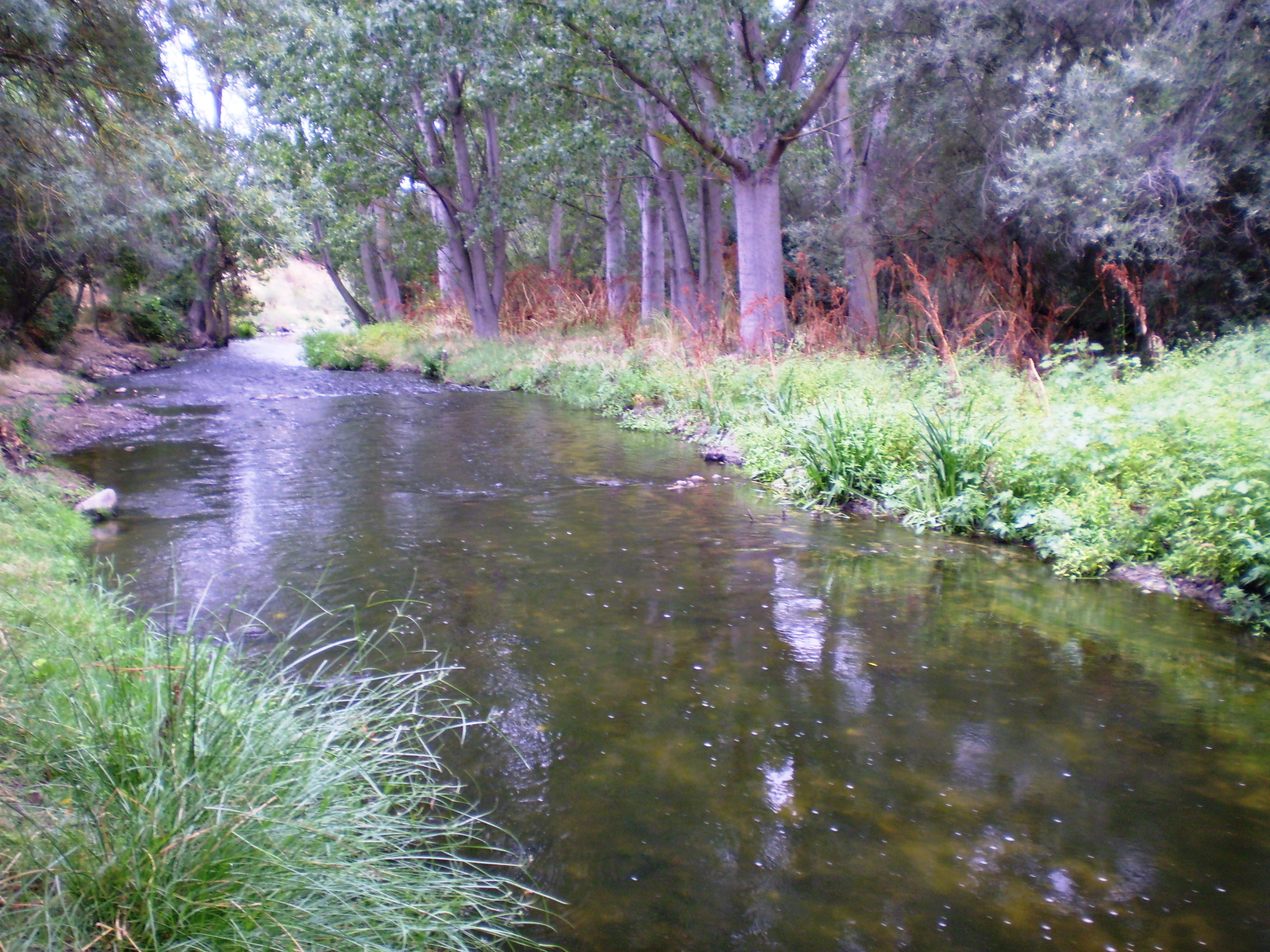 Guadarrama River. Las Rozas, Community of Madrid, Spain